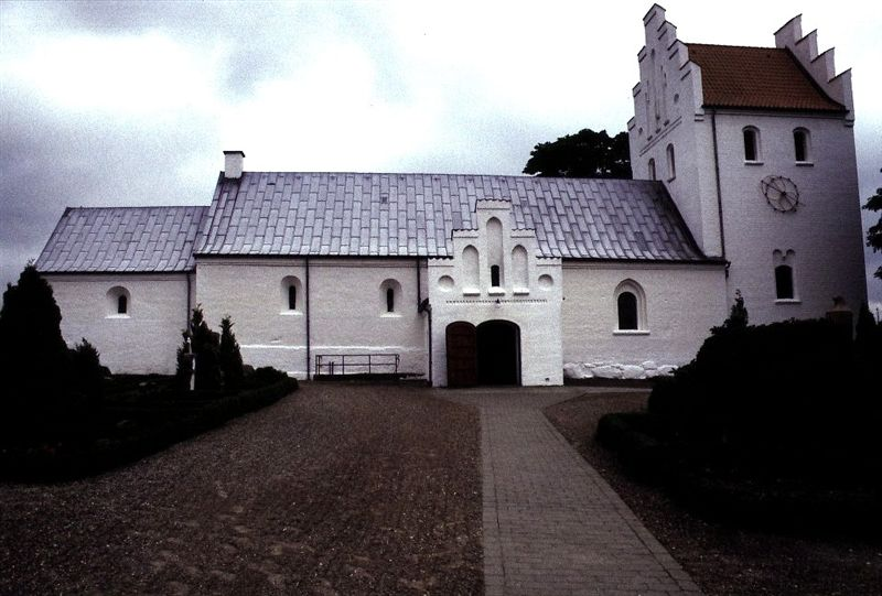 Give Kirke (church)